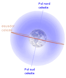 Catalan text version from W:en:Image:Celestial Sphere.gif The Celestial Sphere, divided by celestial equator and celestial poles. From .